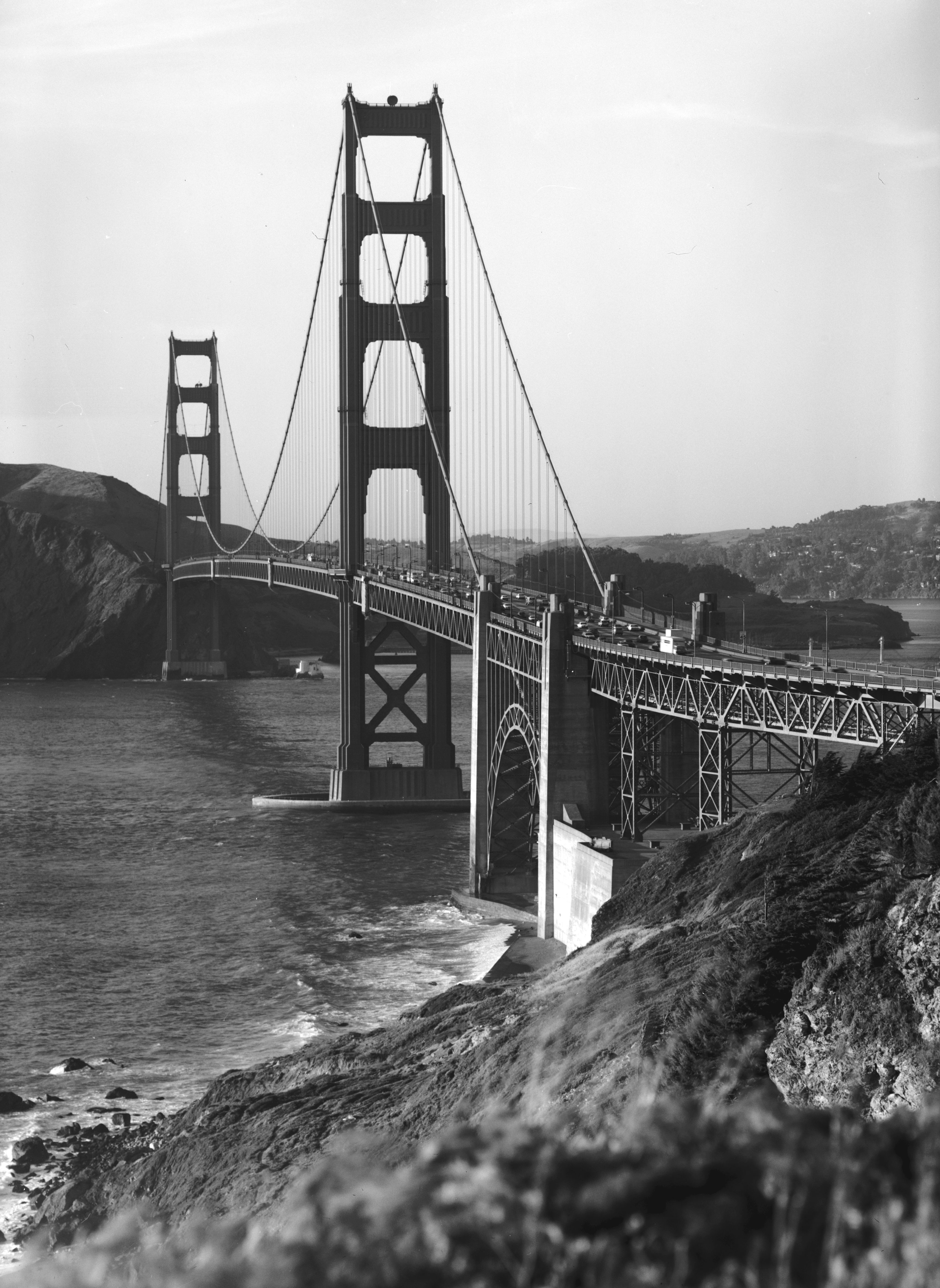 View north from the Presidio of San Francisco, of the western side and the towers of the Golden Gate Bridge. "GENERAL VIEW, LOOKING NORTH, SHOWING THE 'SEA SIDE' OF THE STRUCTURE." HAER—Historic American Engineering Record images of the Golden Gate Bridge (1984).